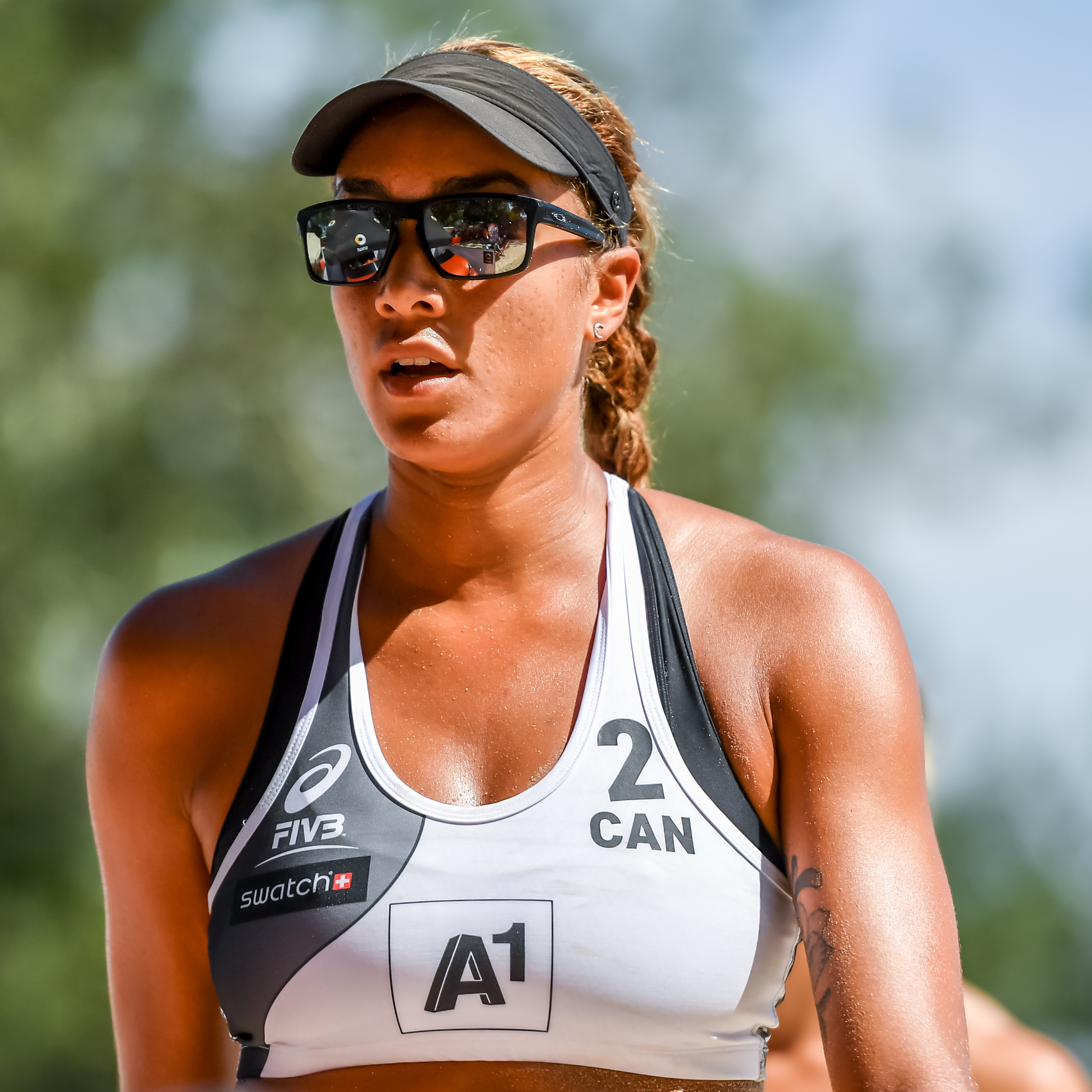 31/7/17, Vienna, Austria, sports, beach volleyball, FIVB Beach Volleyball World Championships.